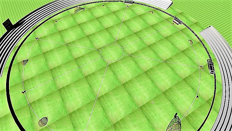 Technical picture of WheelBall plazground